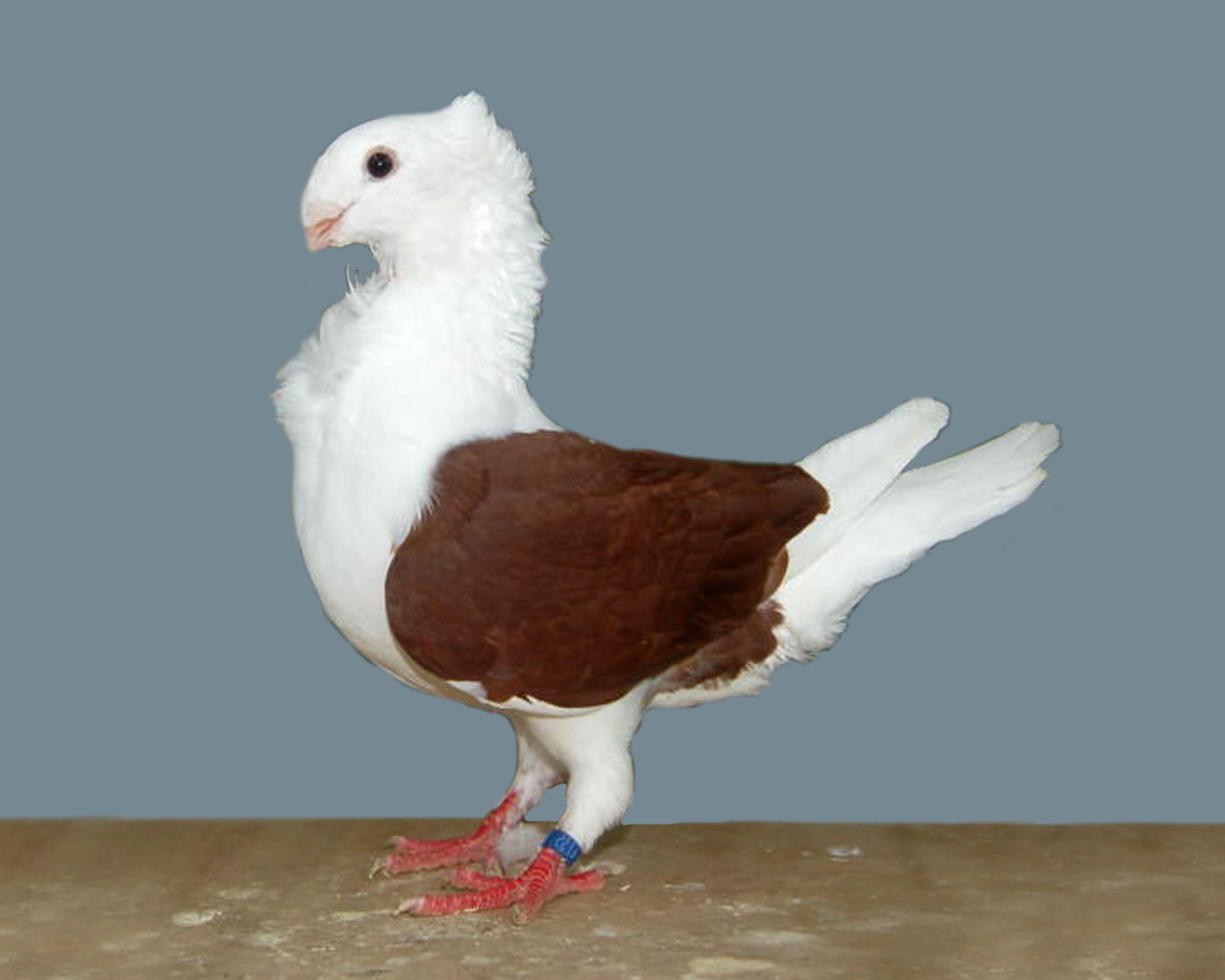 Old Dutch Owl (Red)